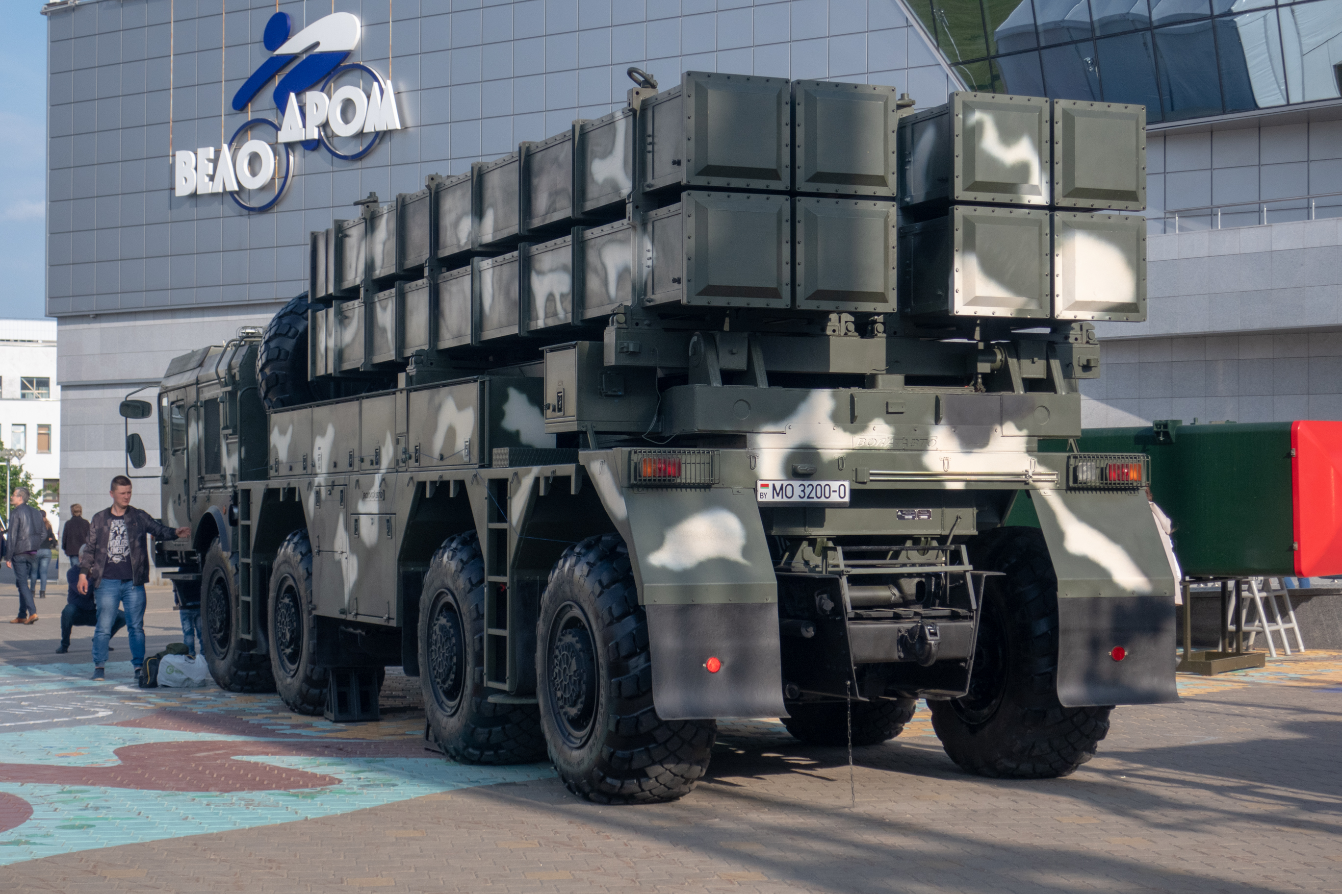 Belarusian-made Polonez MLRS. Photo taken at Milex-2019 arms and military machinery exhibition (Minsk, Belarus)